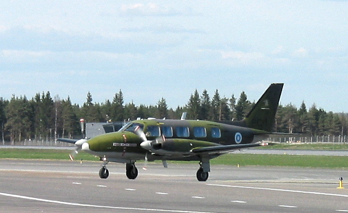 Piper PA-31 Chieftain of Finnish Air Force at Helsinki-Vantaa Airport in 2005.